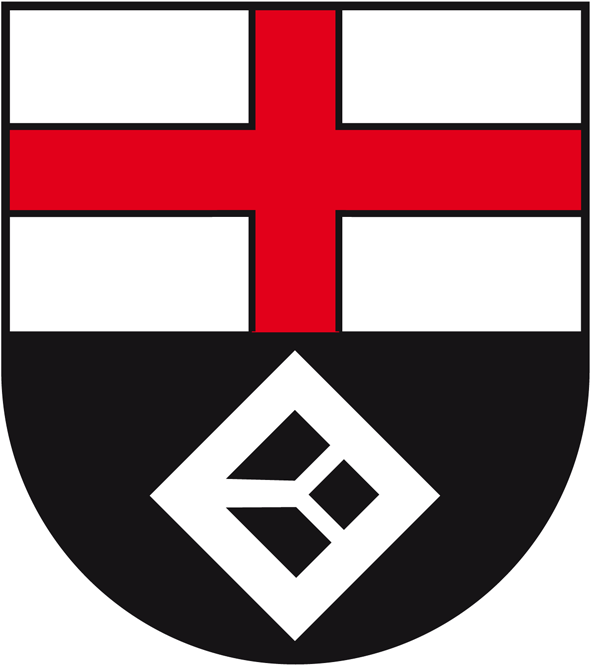 Coat of arms of Laufersweiler